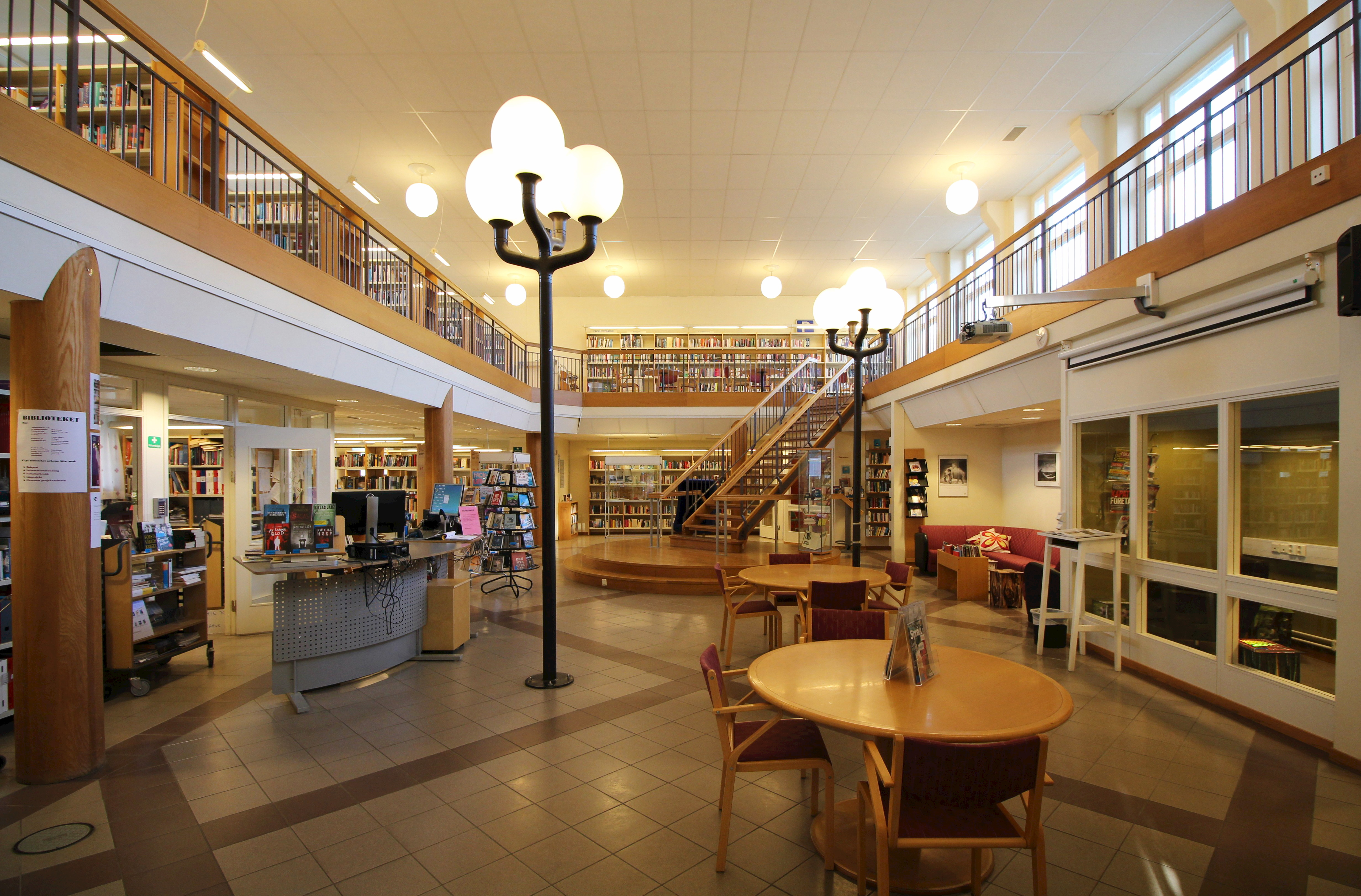 Library at Thorildsplans gymnasium (Thorildsplan upper secondary school), Stockholm, Sweden